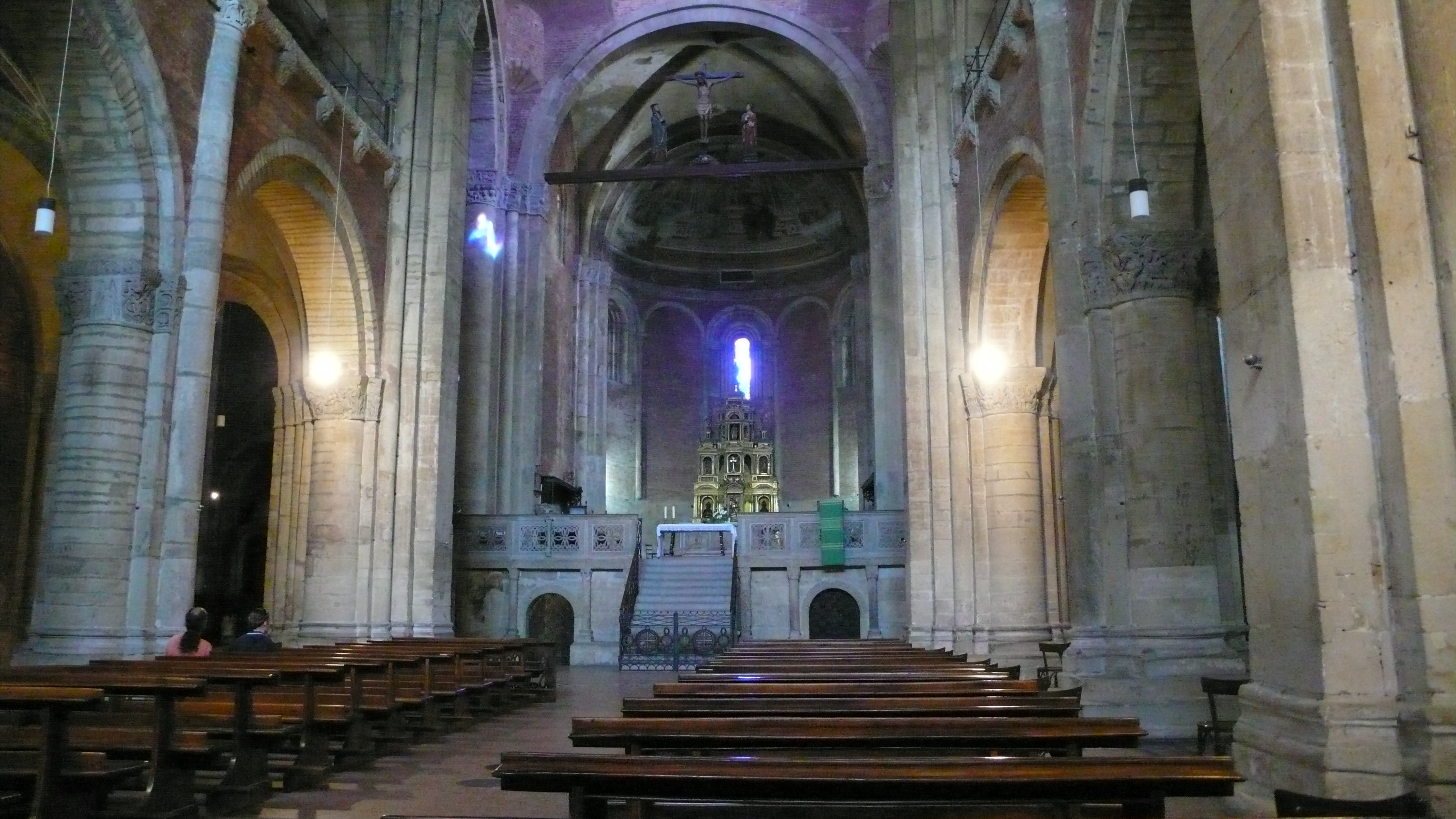 Interior of the church San Michele in Pavia, Italy.